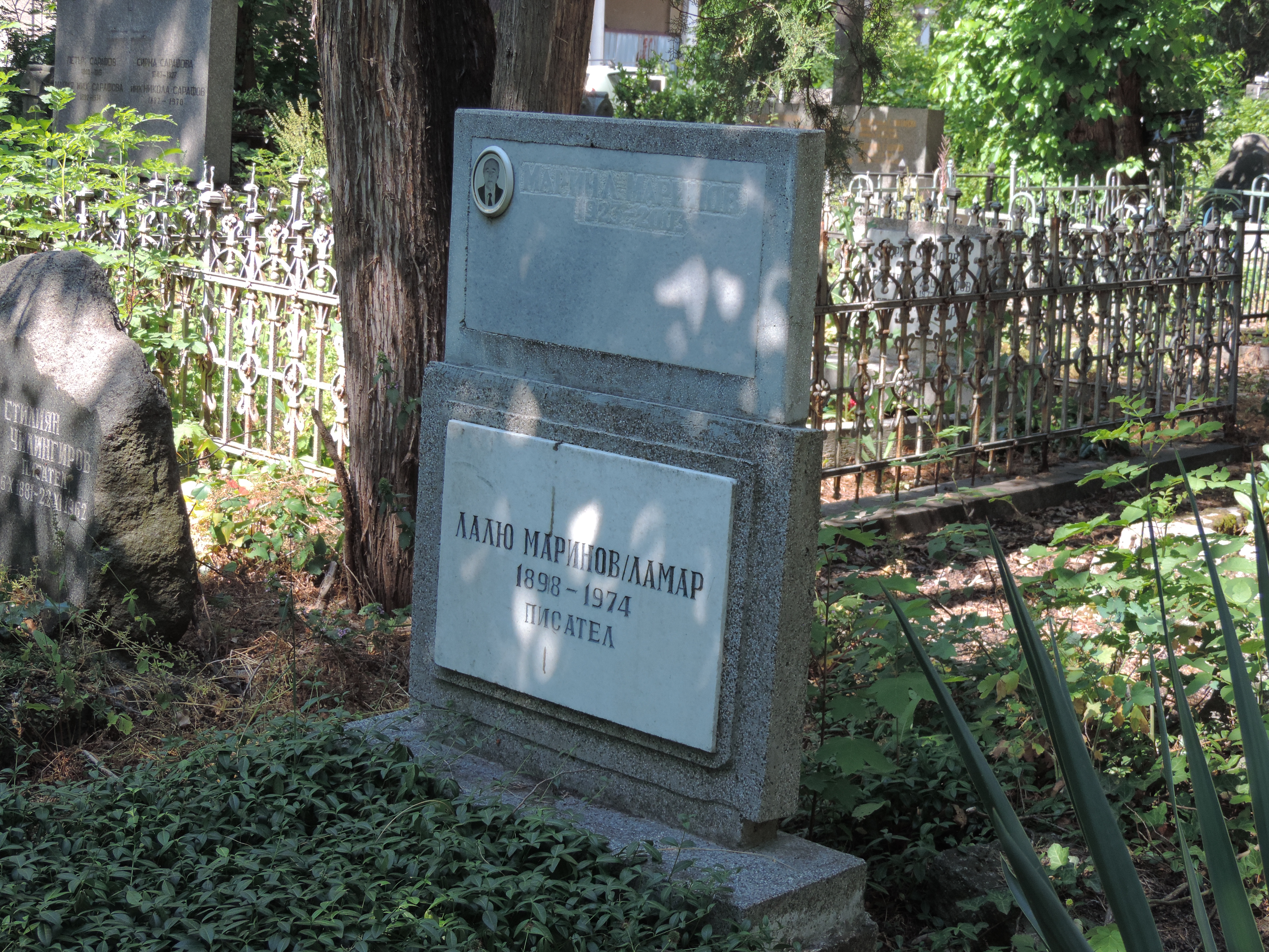 Central Sofia Cemetery